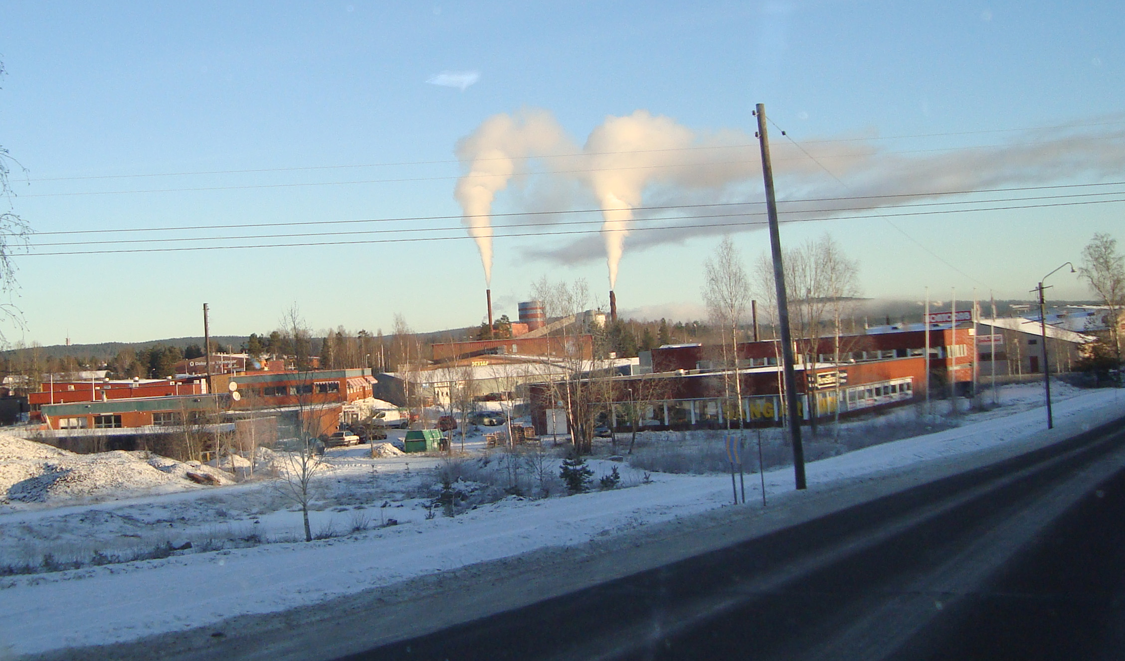 Country road 293 passing Ingarvet, Falun, Sweden.